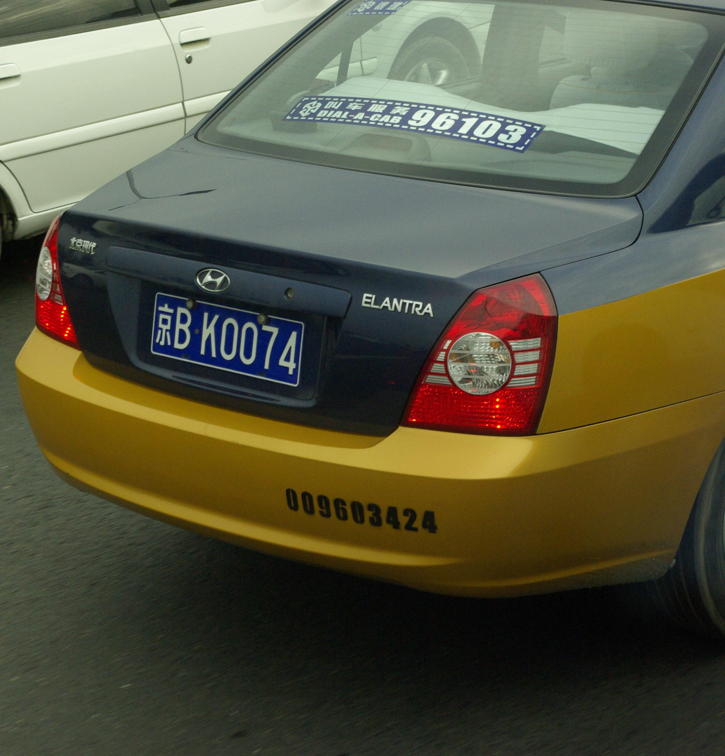 京B K0074 Hyundai Elantra, found in Beijing, China